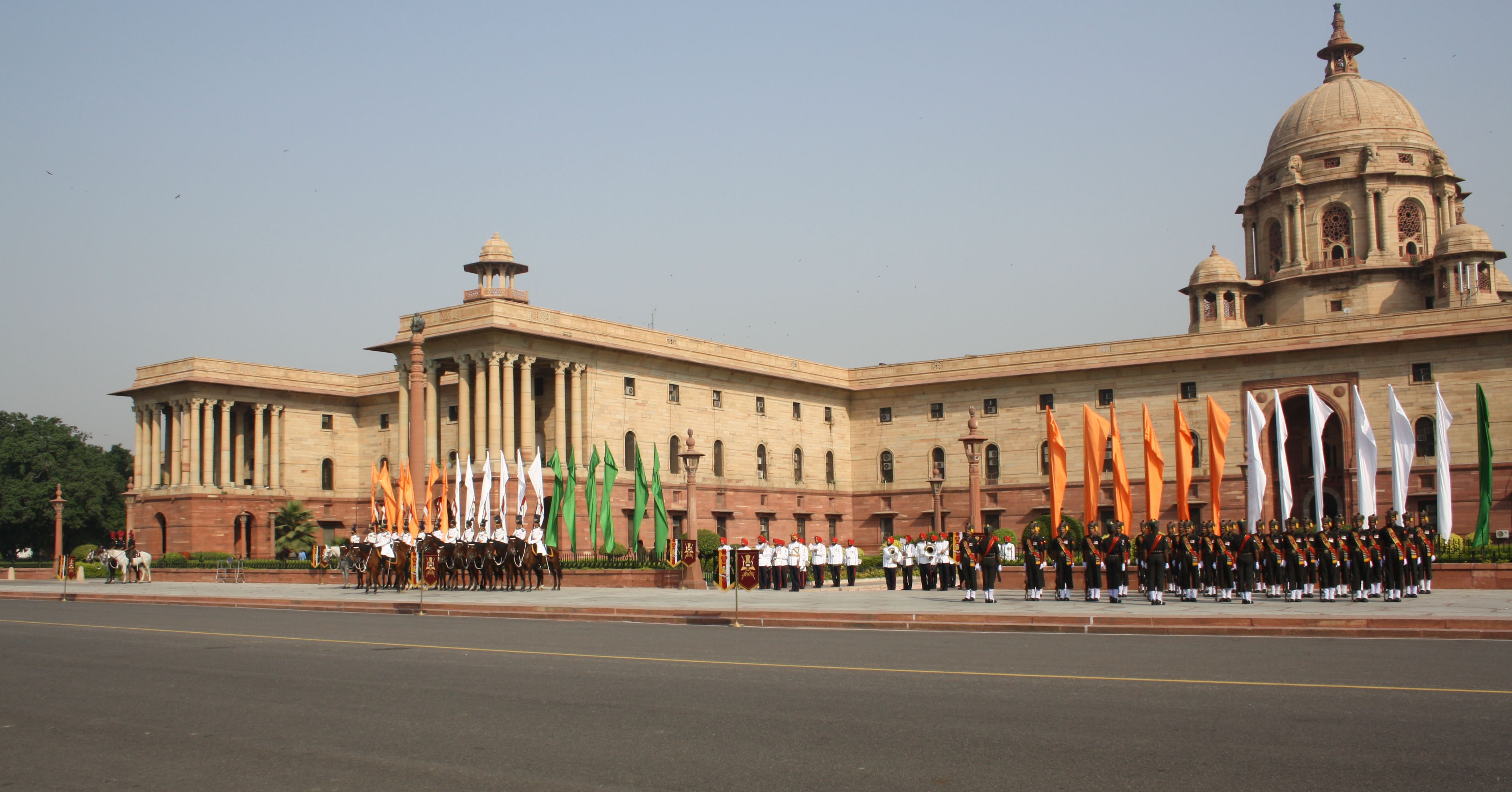 View of North Block from Rajpathin the Secretariat building complex.